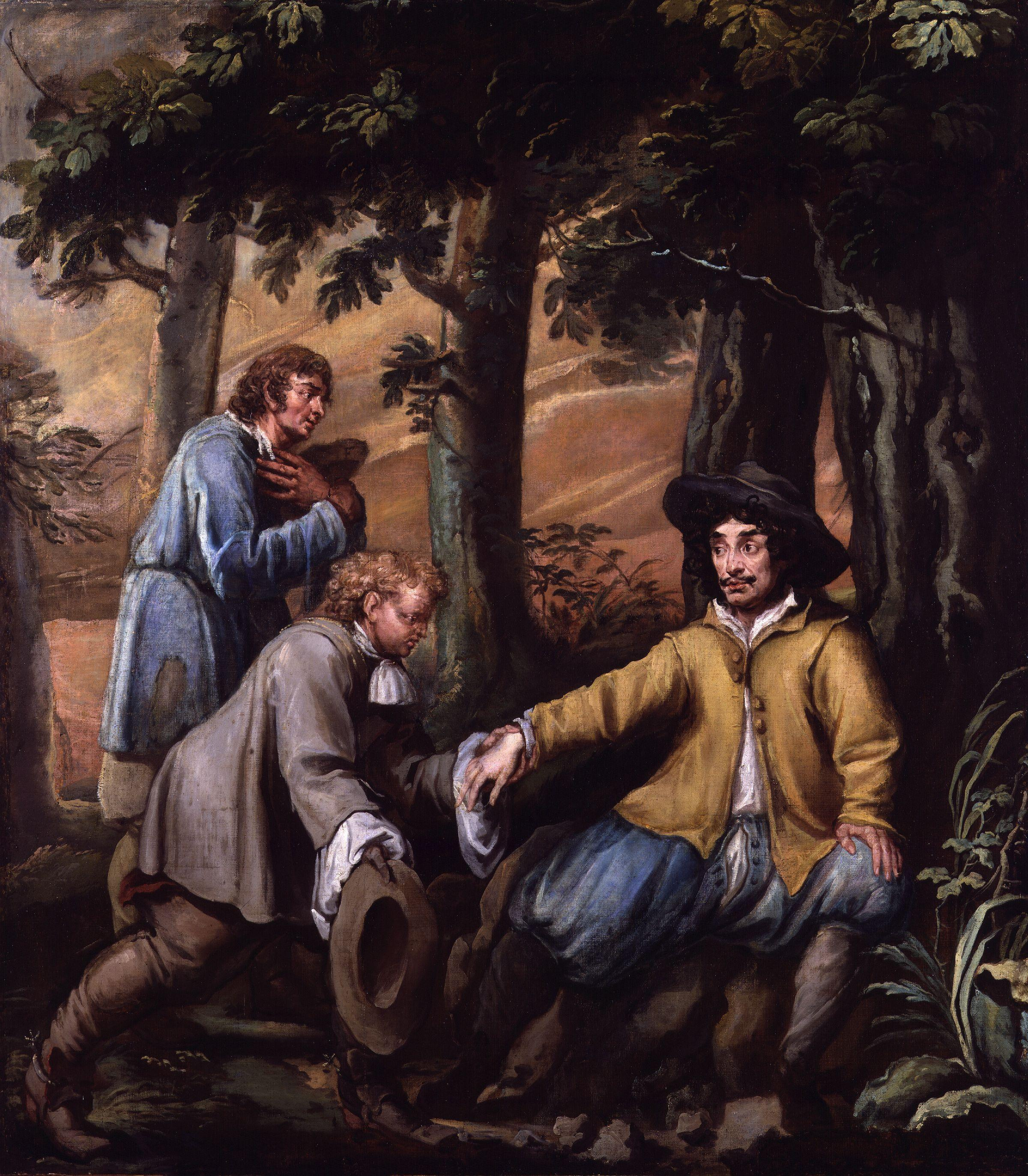 King Charles II in Boscobel Wood, by Isaac Fuller (died 1672). All images in this batch have been confirmed as author died before 1939 according to the official death date listed by the NPG.